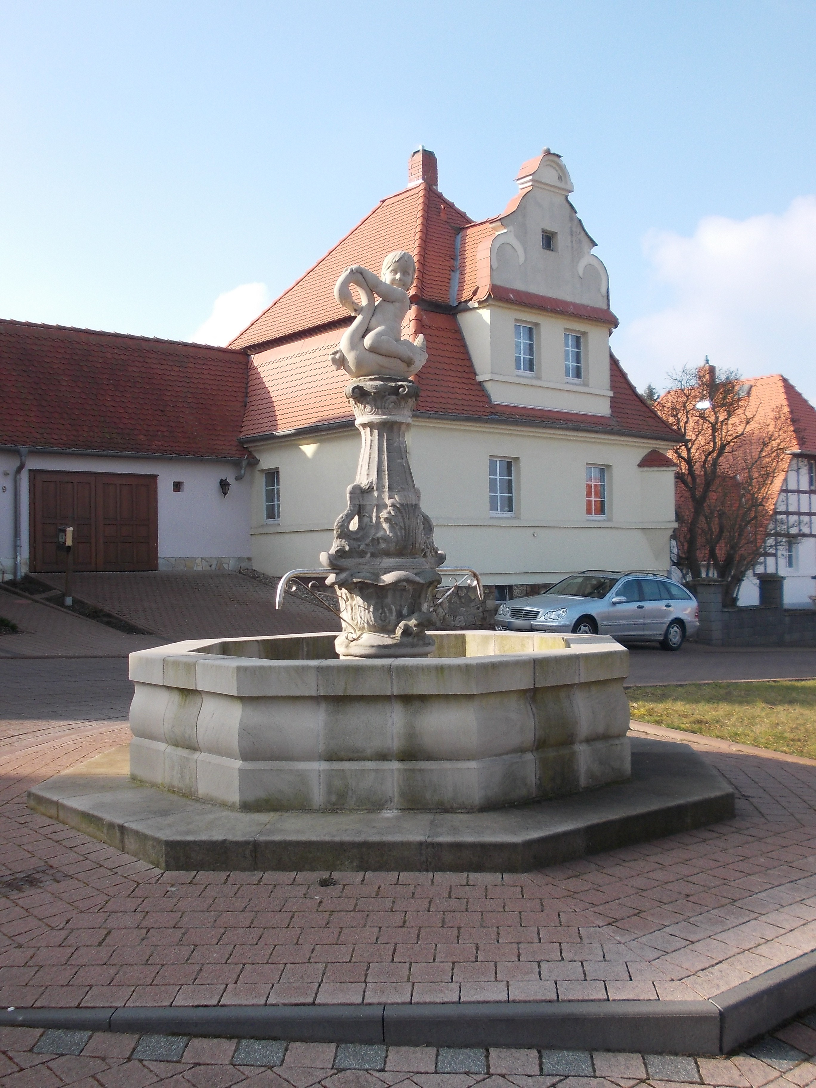 Fountain in Salzmünde (Salzatal, district: Saalekreis, Saxony-Anhalt)